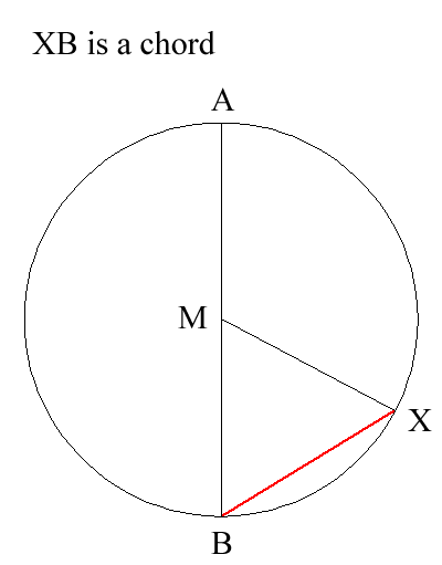 An illustration of a chord in a circle.